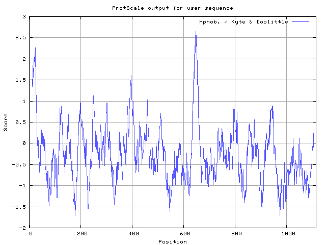 Kyte-Doolittle-Hydropathy Plot for Human RET proto-oncogene (Uniprot ID: P07949). Plot was created using the ExPASy Protscale tool ( The "Hphob. / Kyte & Doolittle" option was selected